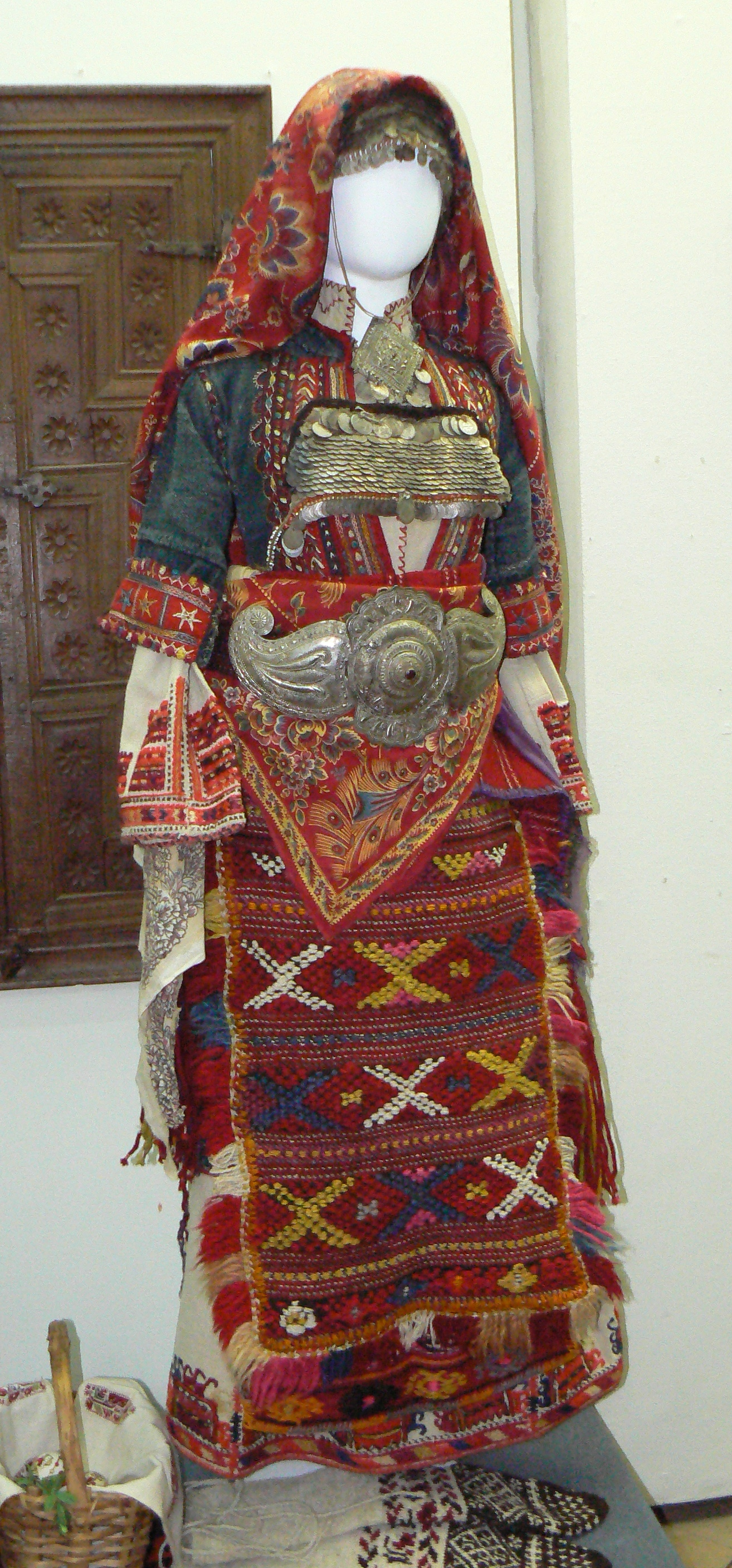 Bulgarian female folk costume, exhibit of the National Ethnographic Museum (Pirin Macedonia)